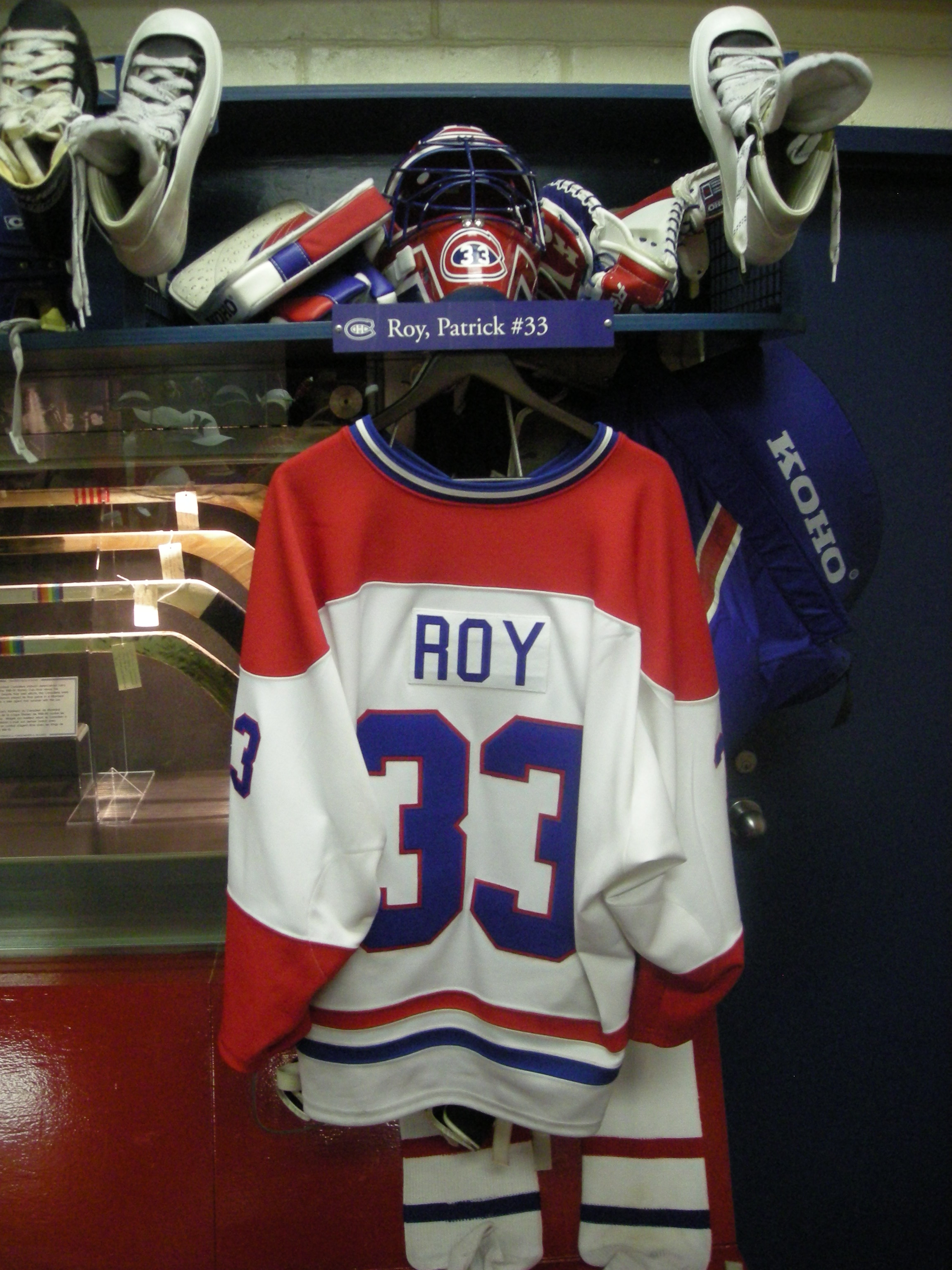 Patrick Roy's jersey and mask in the replica of the Montreal Canadiens dressing room at the Hockey Hall of Fame in Toronto, Ontario (Canada).